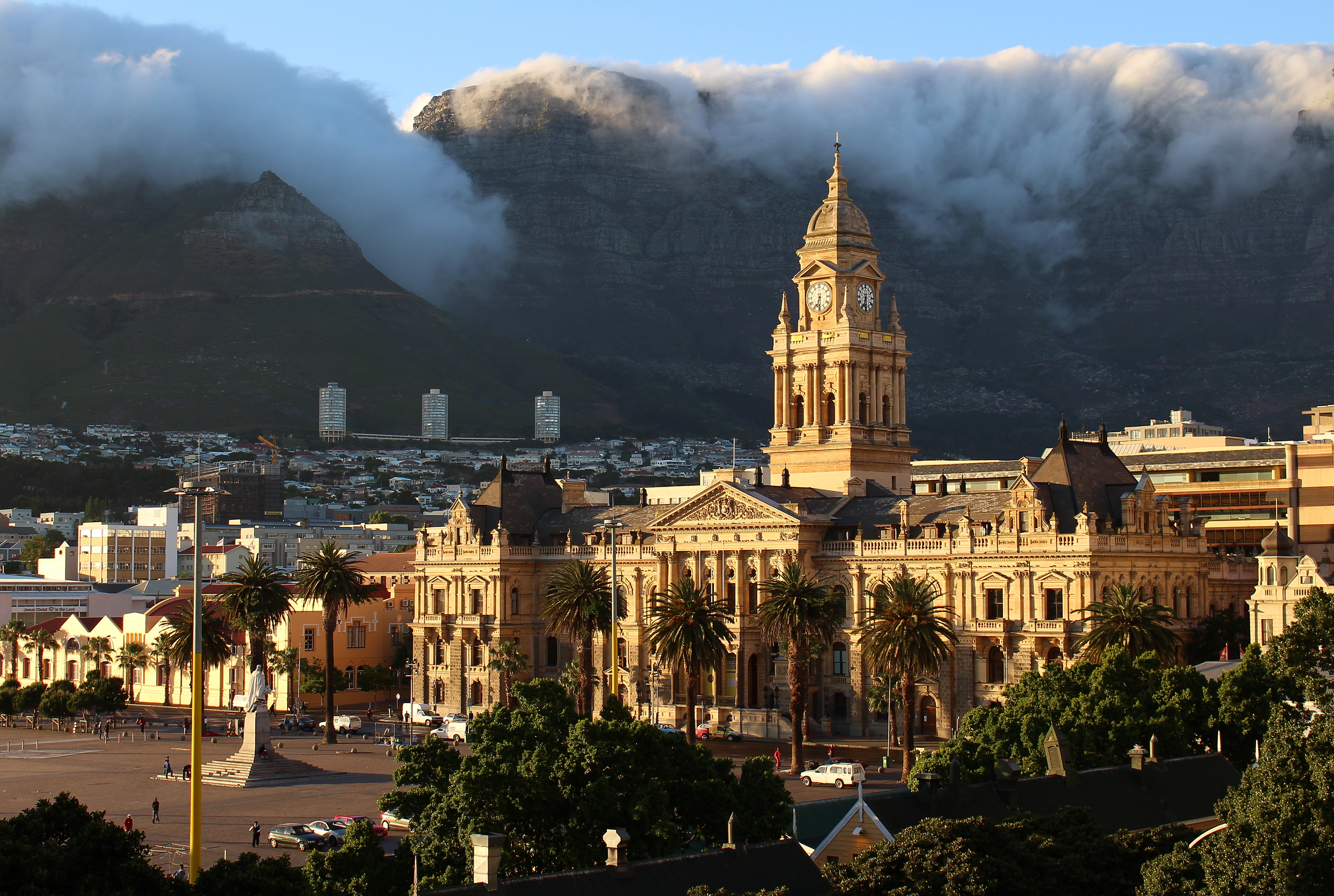 City Hall, Darling Street, Cape Town This media shows a South African Protected Site with SAHRA file reference 9/2/018/0115.